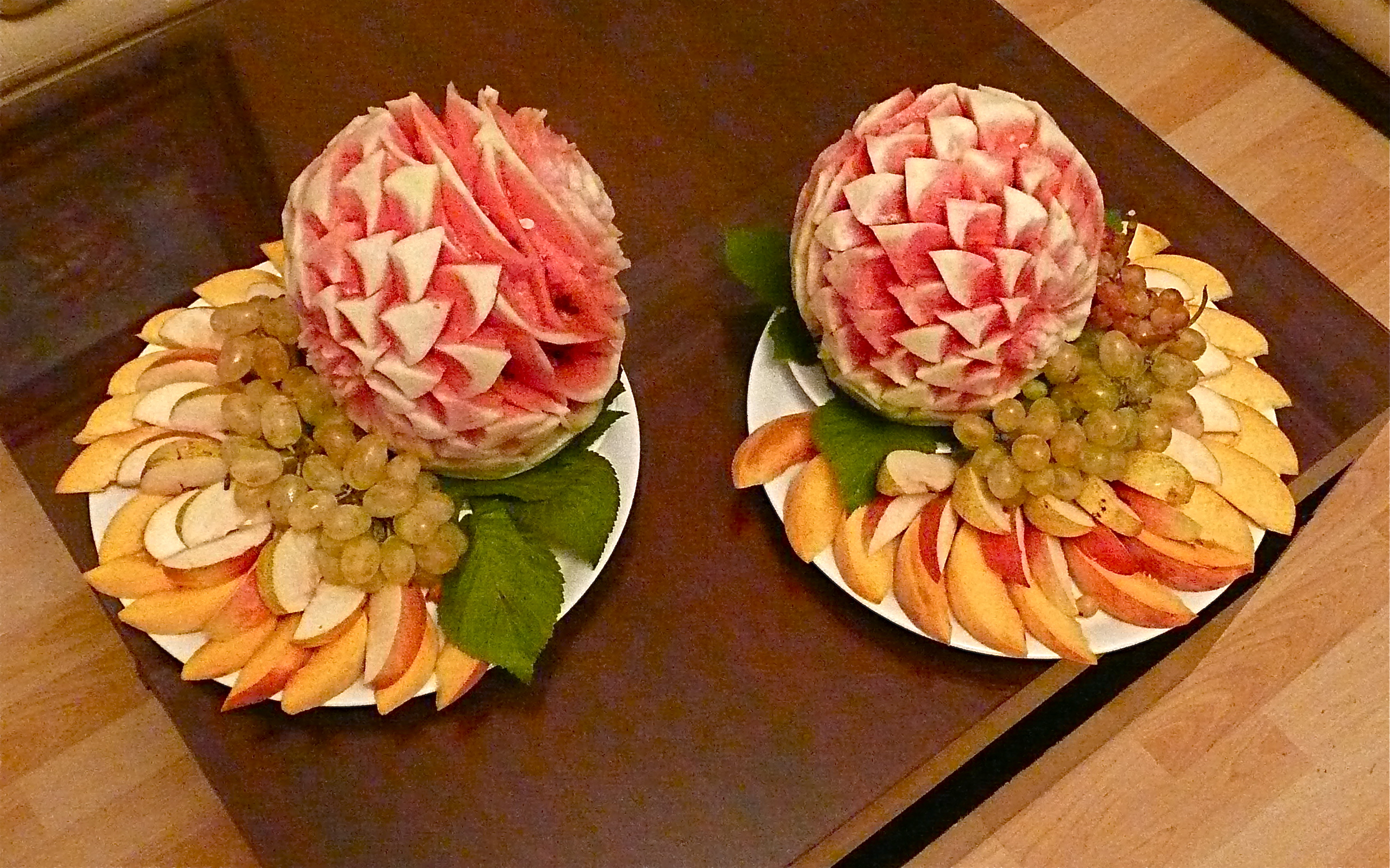 decorated fruits in Vanadzor, Armenia Afscheid van Armenië en van Lucinee, onze lokale gids.